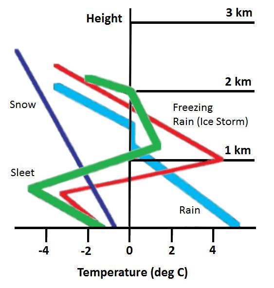 A graph showing the formation of freezing rain with relation to the formation of snow, sleet, and rain. Derived from two figures in (Gay, David A.; Robert E. Davis (1993-12-30). "Freezing rain and sleet climatology of the southeastern USA". Climate Research 3 (1): 209-220.